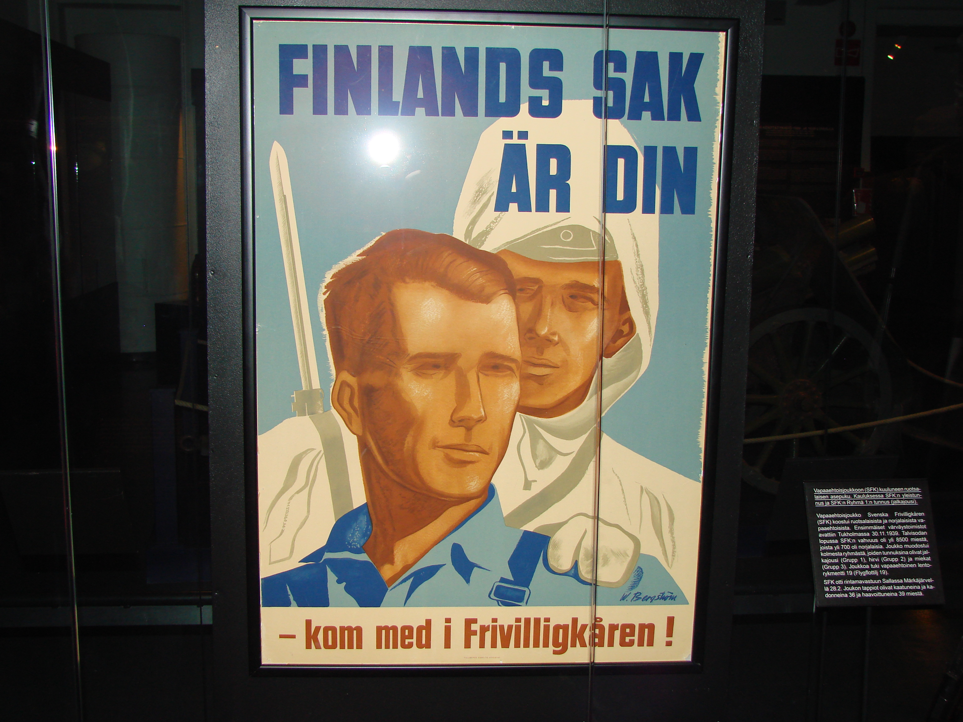 Swedish Volunteer Corps recruitment poster at the Finnish Artillery Museum, Hämeenlinna.